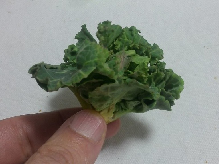 Petit vert, a hybrid cultivar of a Kale and a Brussels sprout.